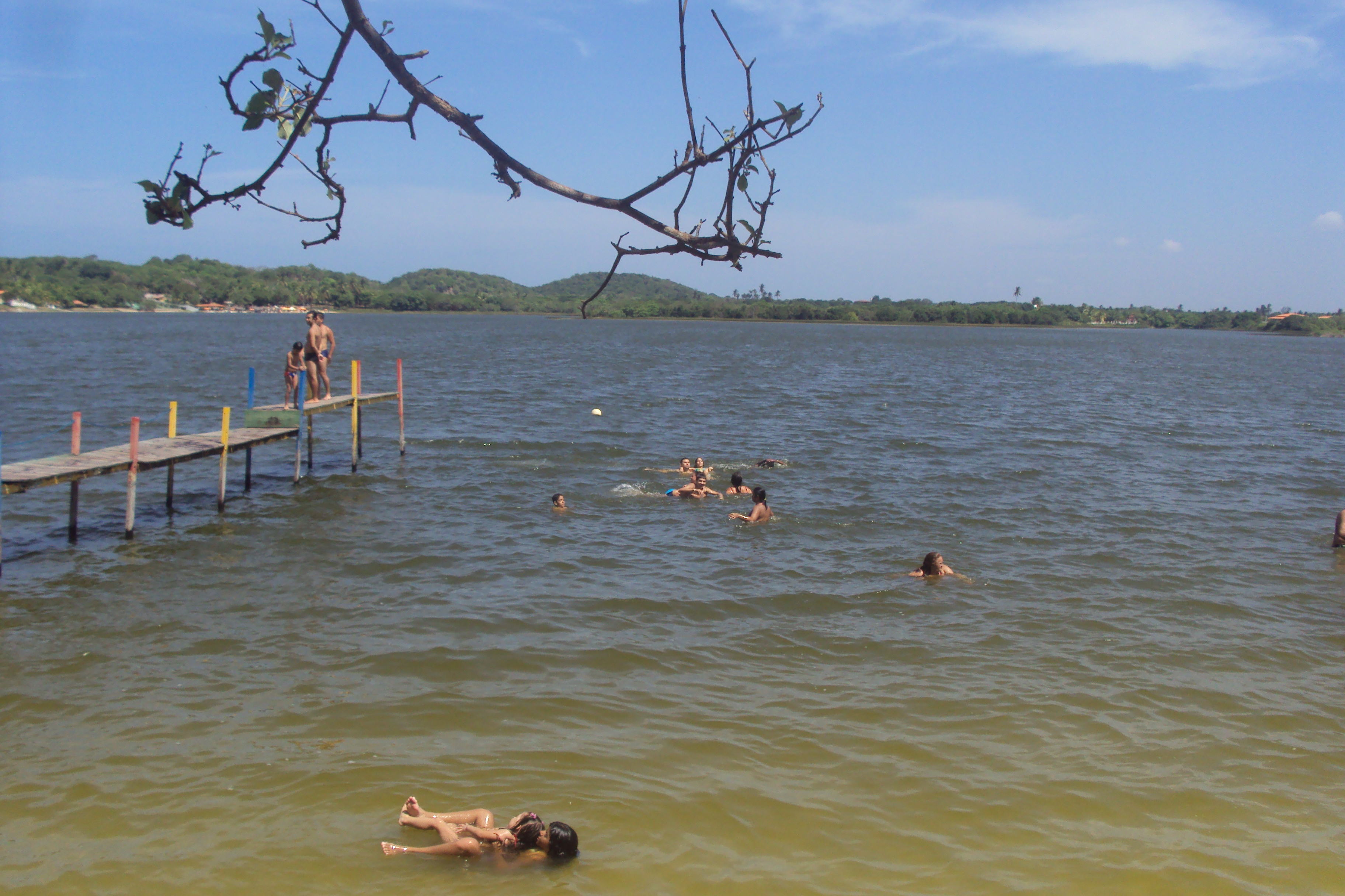 Banana Lagoon, Caucaia, Brazil.